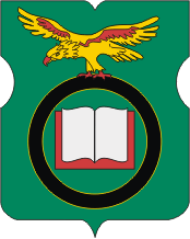 Obruchevskoe (municipality in Moscow), coat of arms